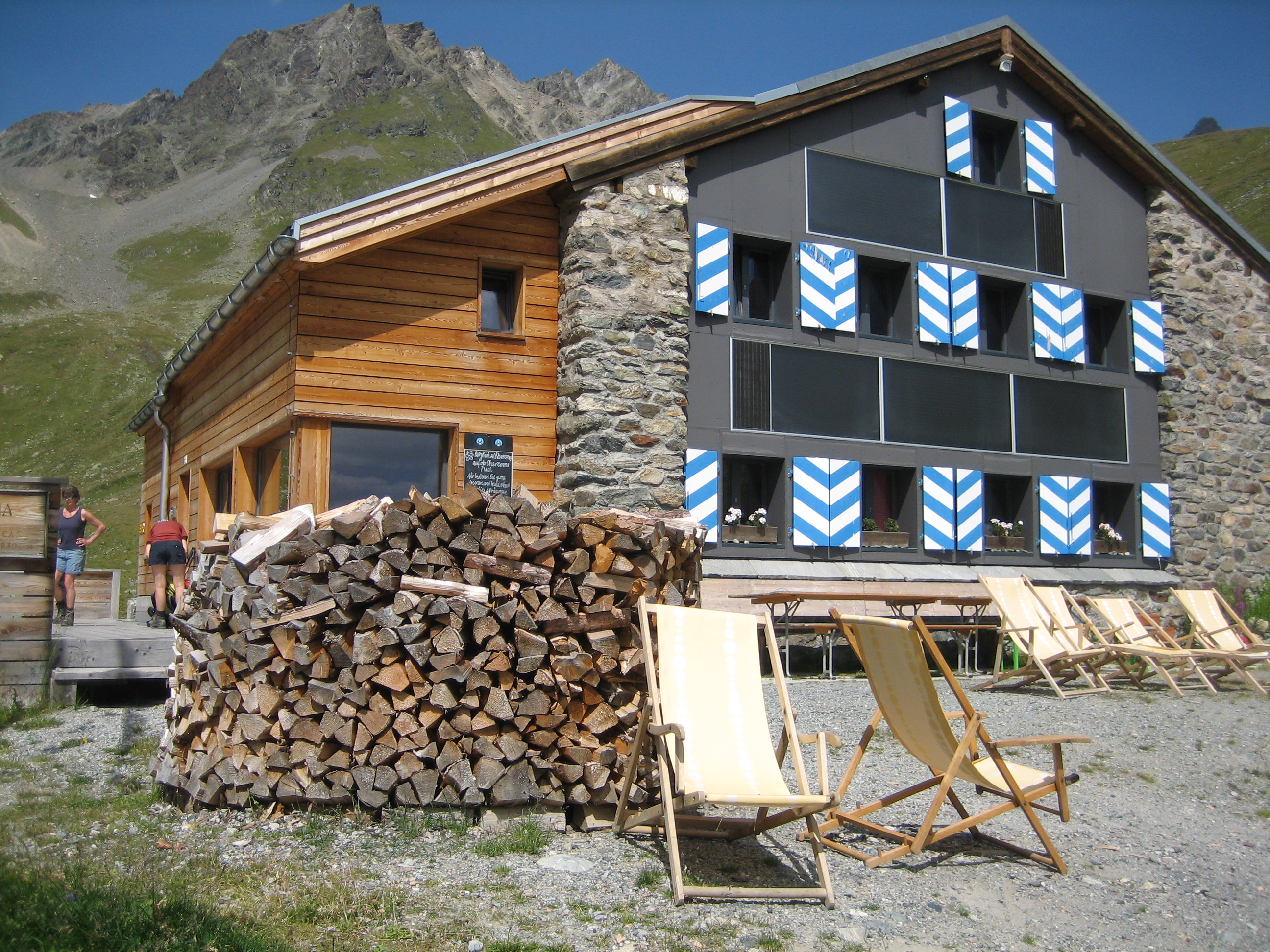 Tuoi alpine hut of the Swiss Alpine Club (SAC), at 2250 m, Guarda, Grisons, Switzerland Rumantsch: Chamonna Tuoi dil Club alpin svizzer (CAS), sin 2250 m, Guarda, Grischun, Svizra